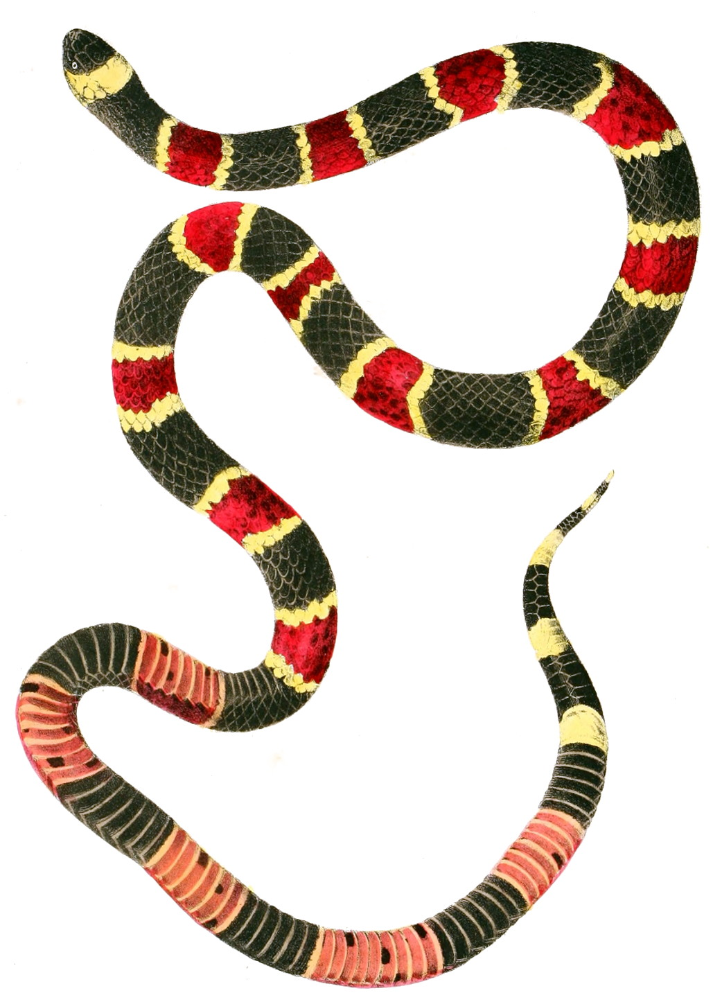 Eastern Coral Snake , Micrurus fulvius